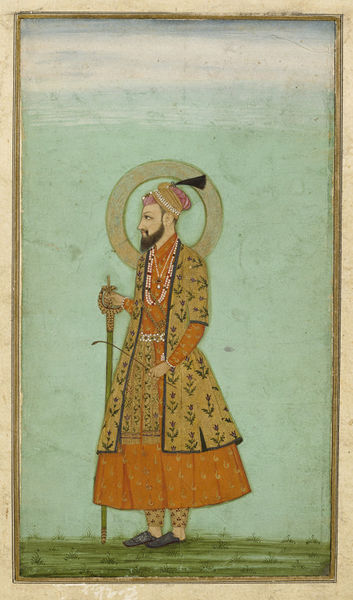 Aurangzeb Alamgir was the 6th Mughal emperor.